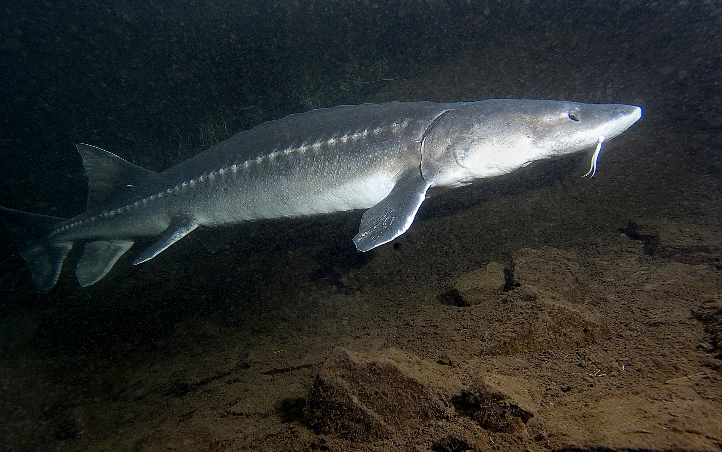 A white sturgeon at the Oregon Department of Fish and Wildlife's Sturgeon Center at Bonneville Dam on the Columbia River in January 2010.